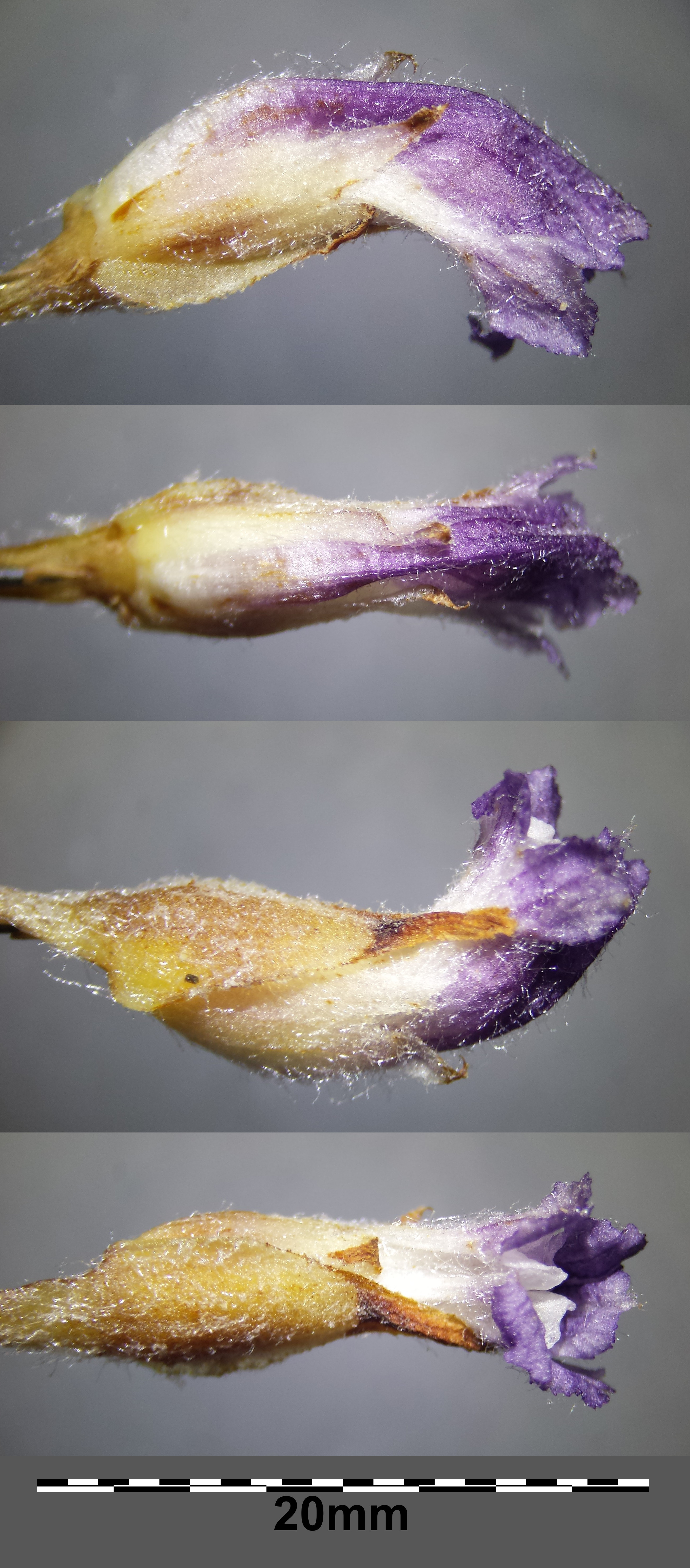 Flower Taxonym: Orobanche coerulescens ss Fischer et al. EfÖLS 2008 ISBN 978-3-85474-187-9 Location: Latschenberg near Altenmarkt im Thale, district Hollabrunn, Lower Austria - ca. 350 m a.s.l. Habitat: sandy fallow land